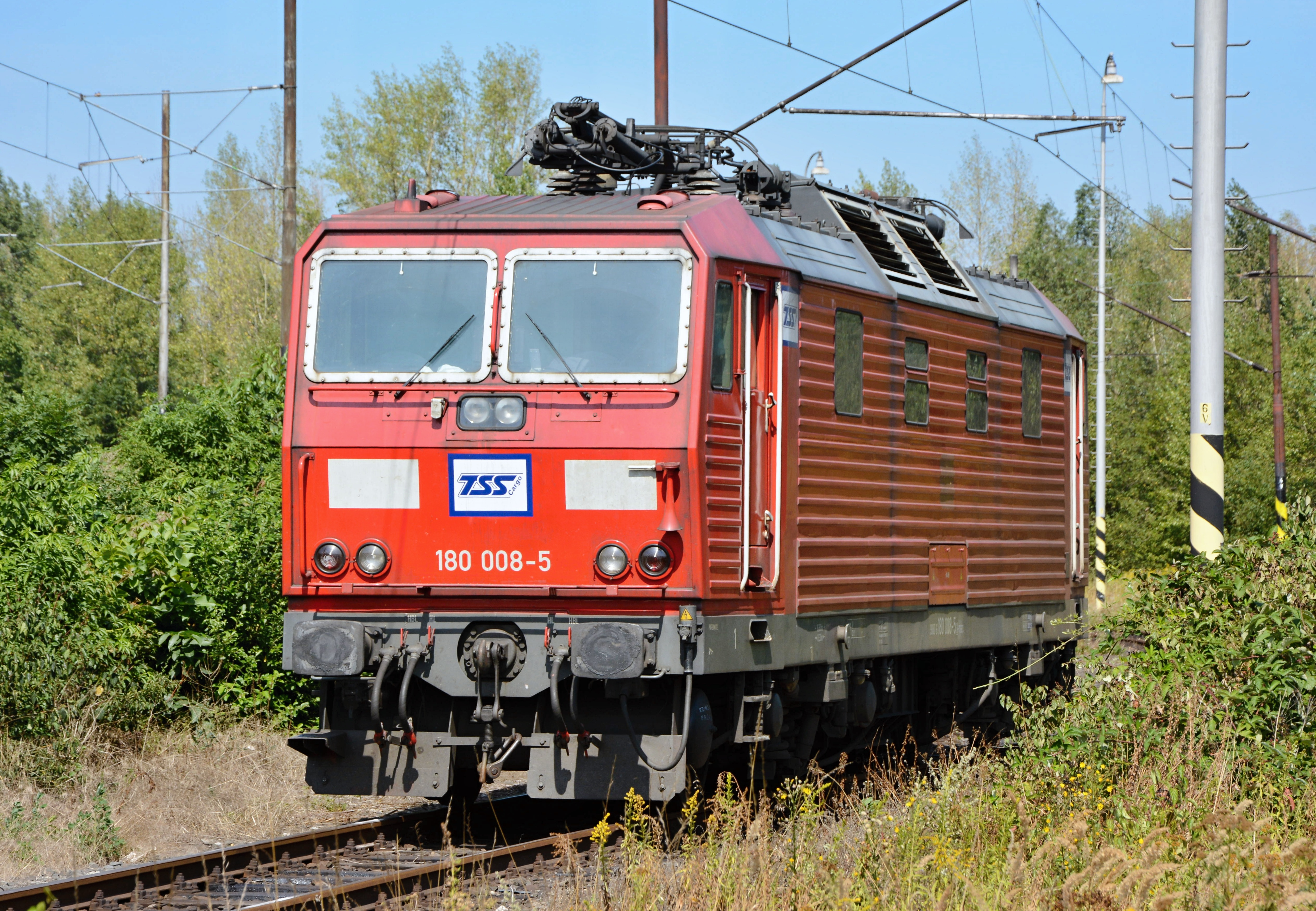 Locomotive 180 008 of TSS Cargo, Ostrava-Kunčice station, Czech Republic